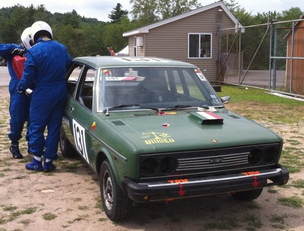 Example of a refuel in the 24 Hours of LeMons. Featured is a a Fiat 131s lemons "Race" car